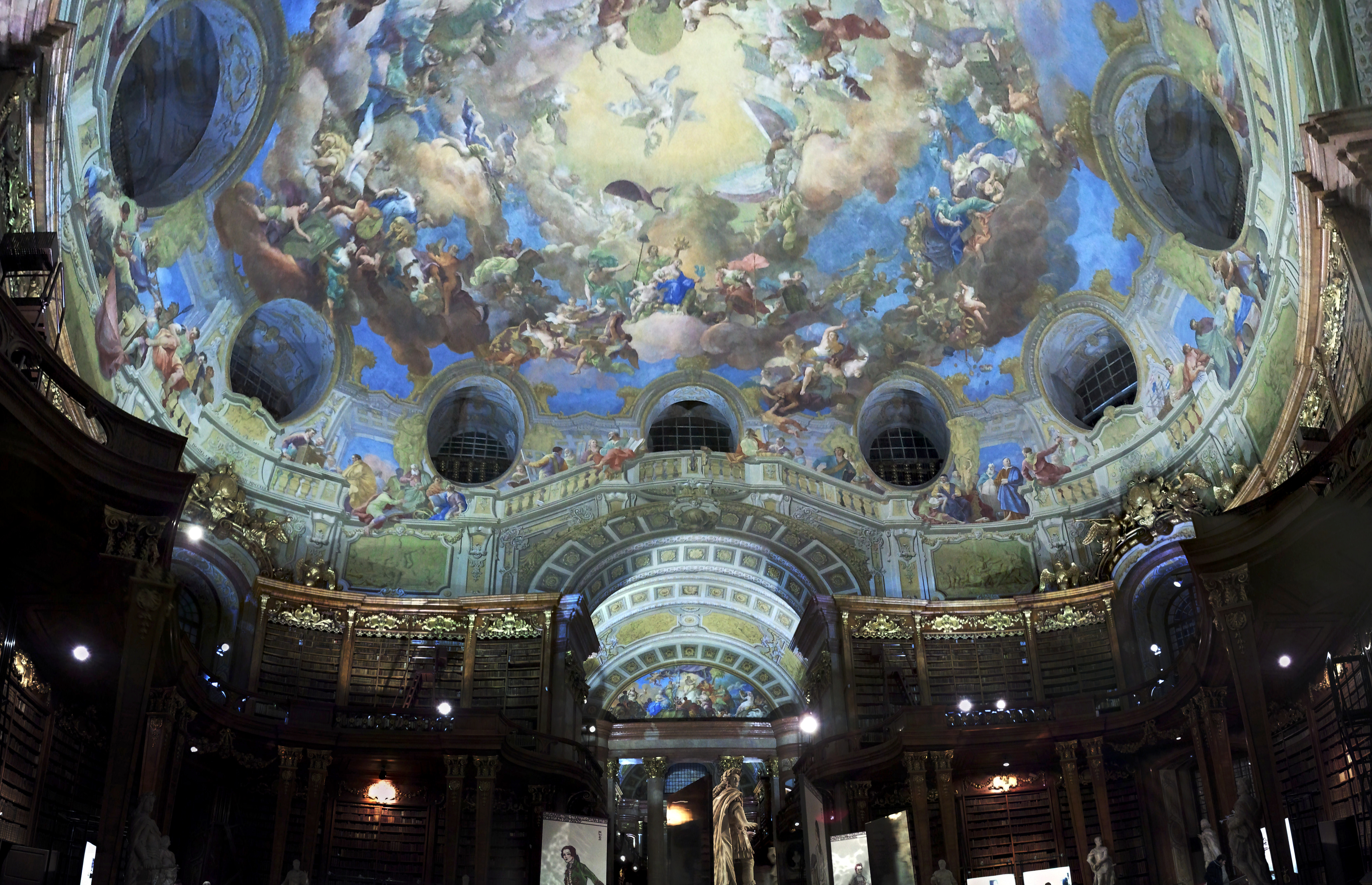 Austrian National Library pano